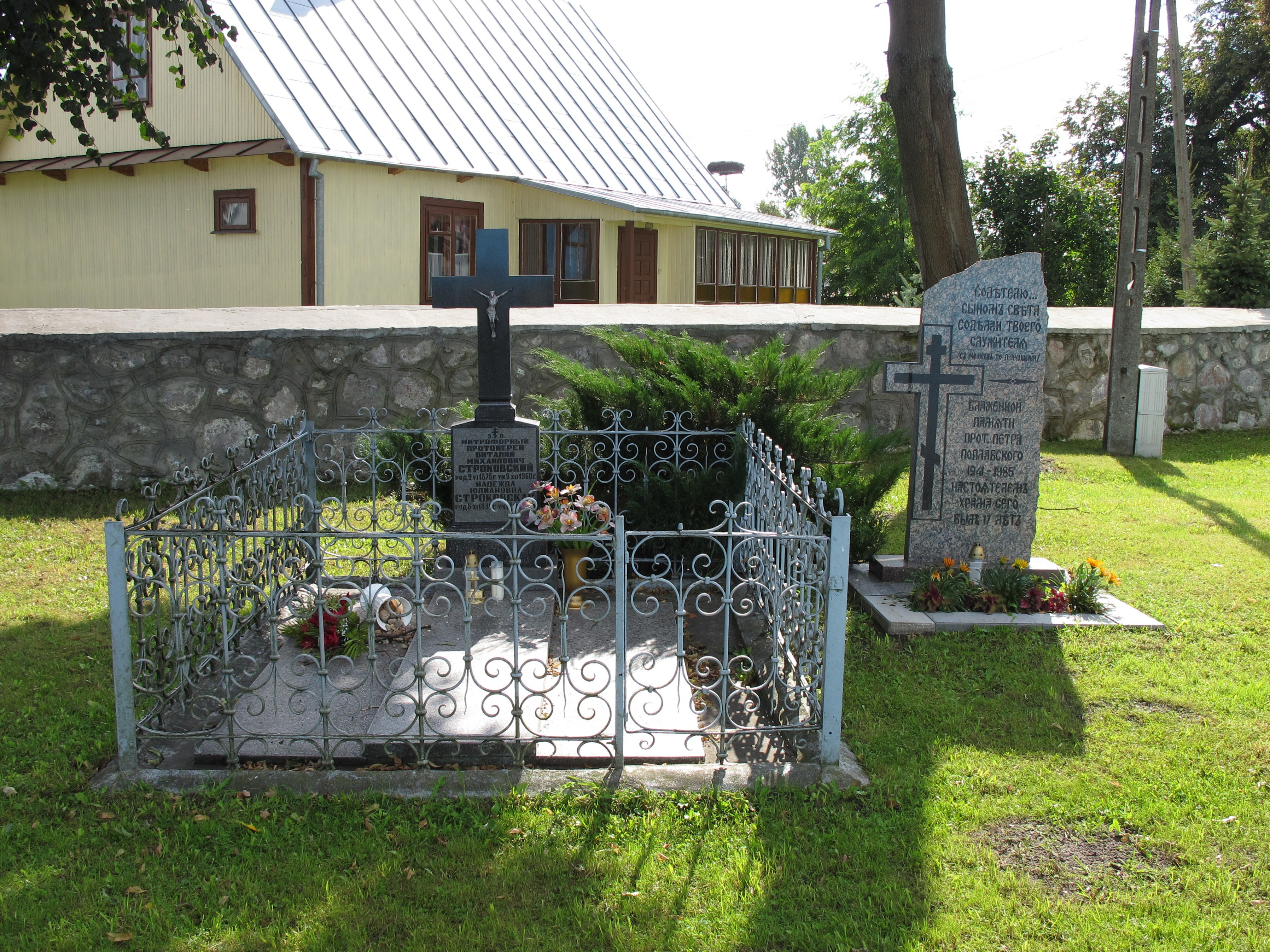 Headstones by the orthodox church of the Exaltation of the Holy Cross, Poniatowskiego 27 st., Narew, gmina Narew, podlaskie, Poland